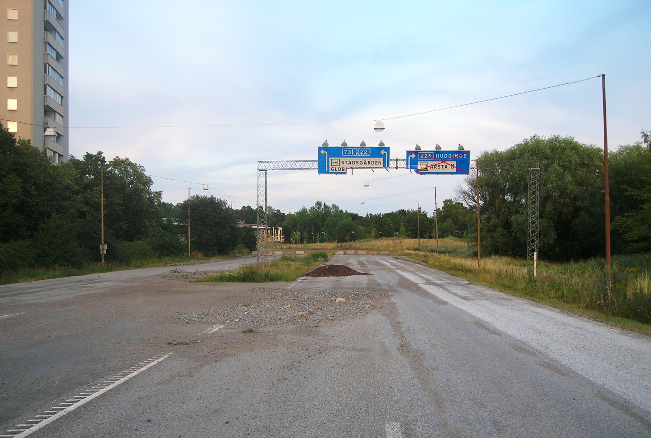 Årstalänken, a deserted motorway in Stockholm, Sweden